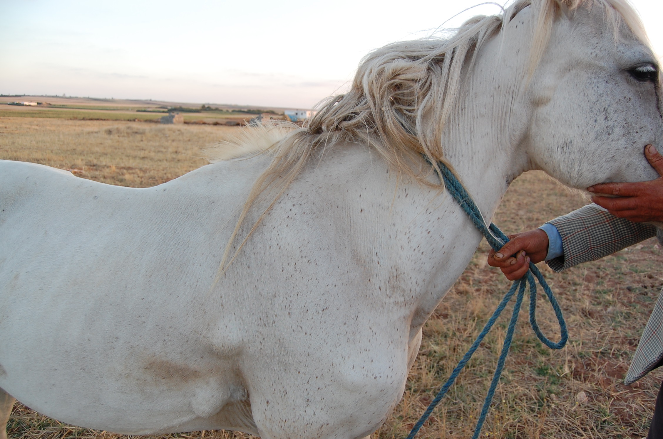 Walon: melanômes so on blanc tchvå